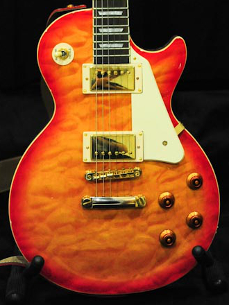 Epiphone Les Paul Ultra II body